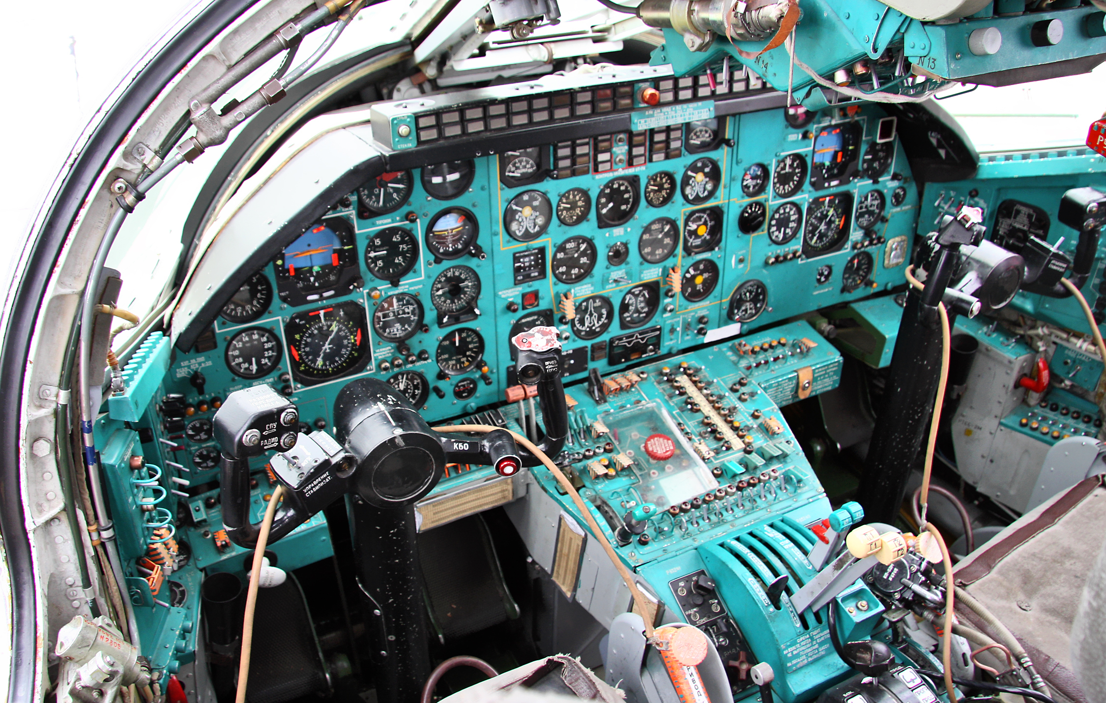 Cockpit of Tupolev Tu-22M3 bomber, commander panel